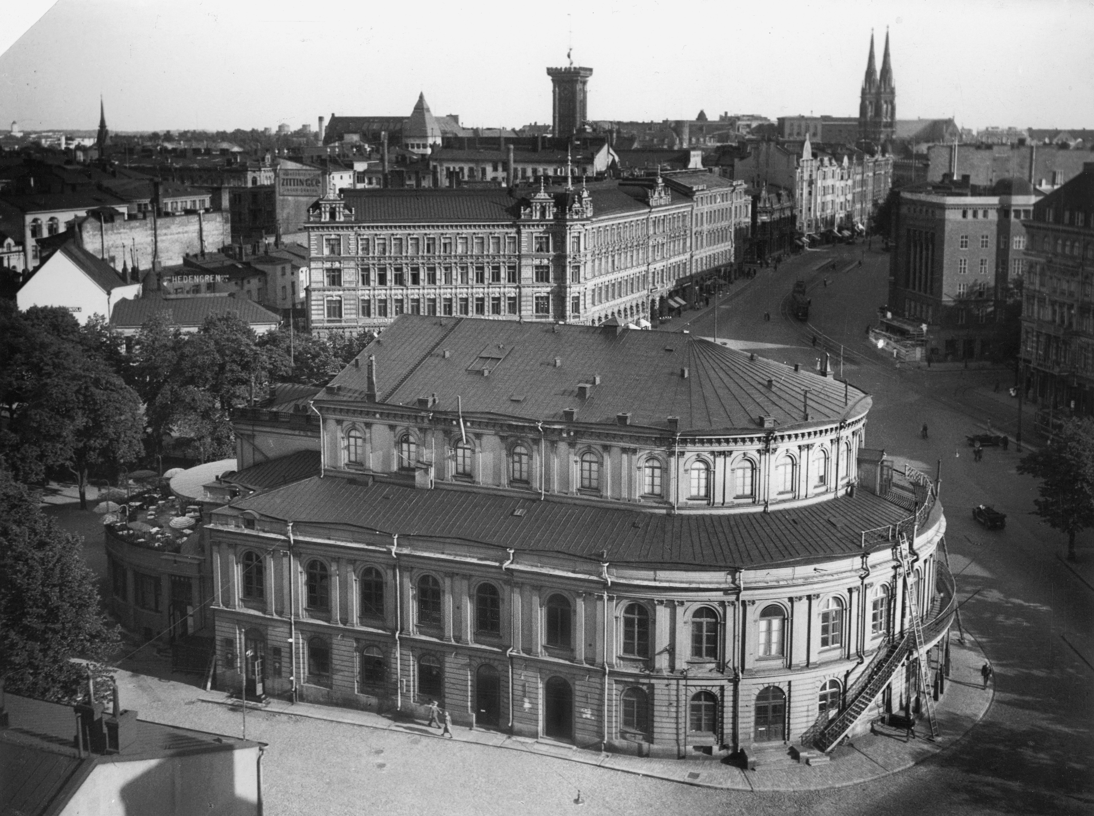 The Swedish Theatre in Helsinki in 1930 (view from north)